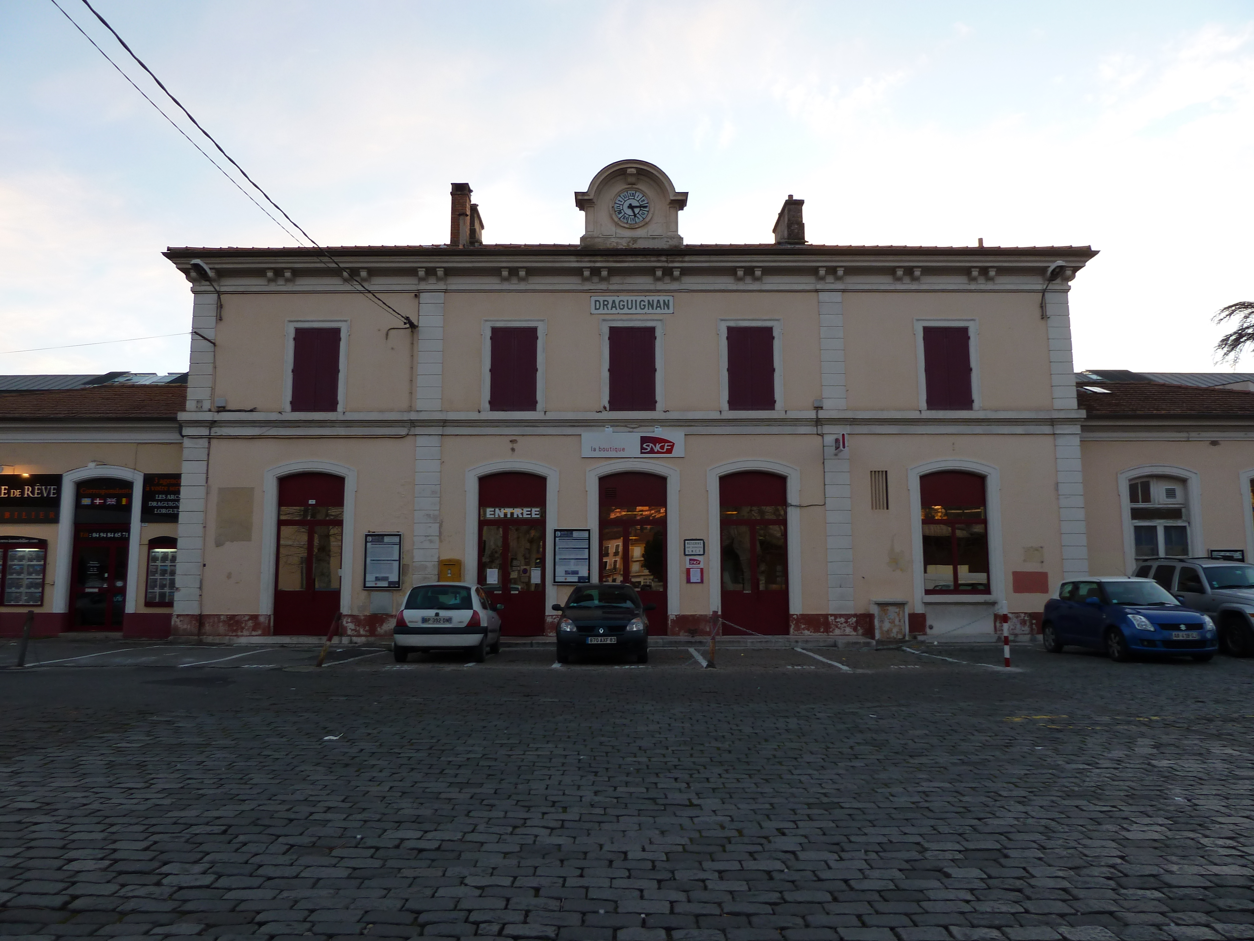 Bus station of Draguignan (outdoor)